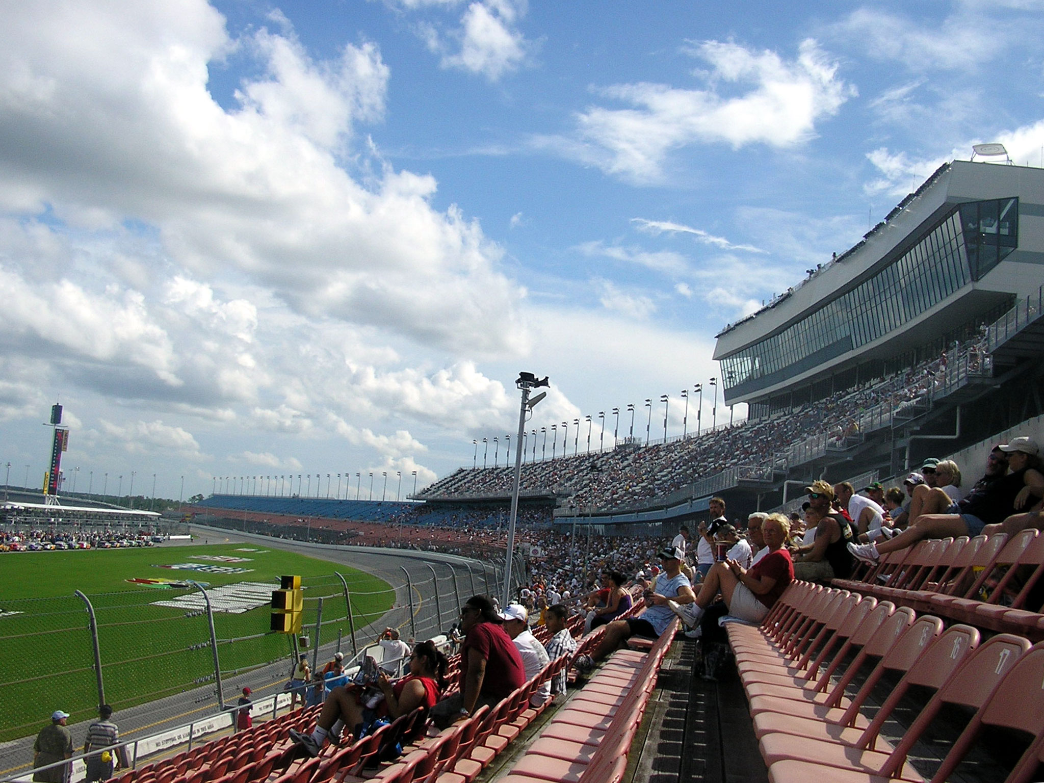 Daytona International Speedway on 1 July, 2005.